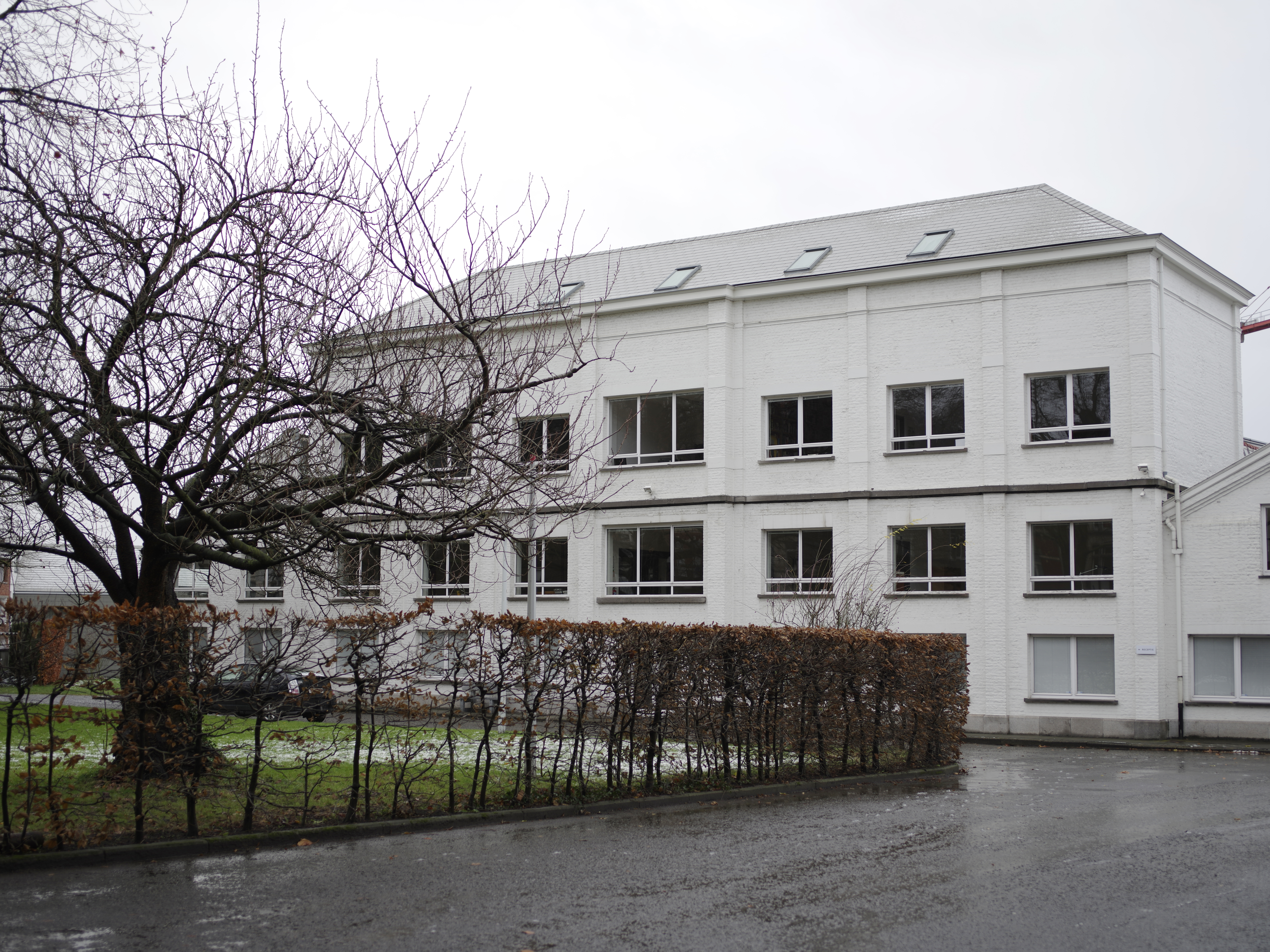 The office of the contemporary dance company Rosas at avenue Van Volxemlaan 164 in 1190 Forest (Brussels).